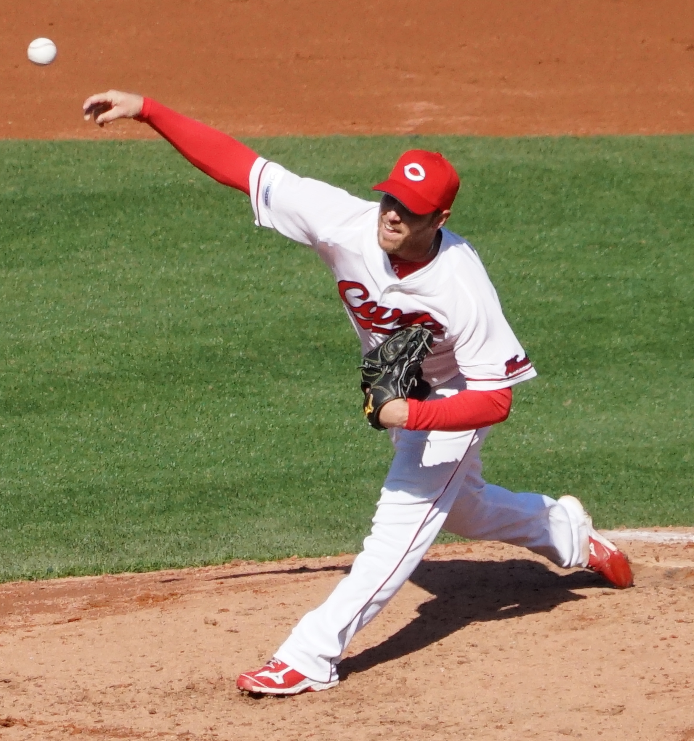 Bradin Hagens, pitcher of the Hiroshima Toyo Carp, at Mazda Zoom-Zoom Stadium Hiroshima